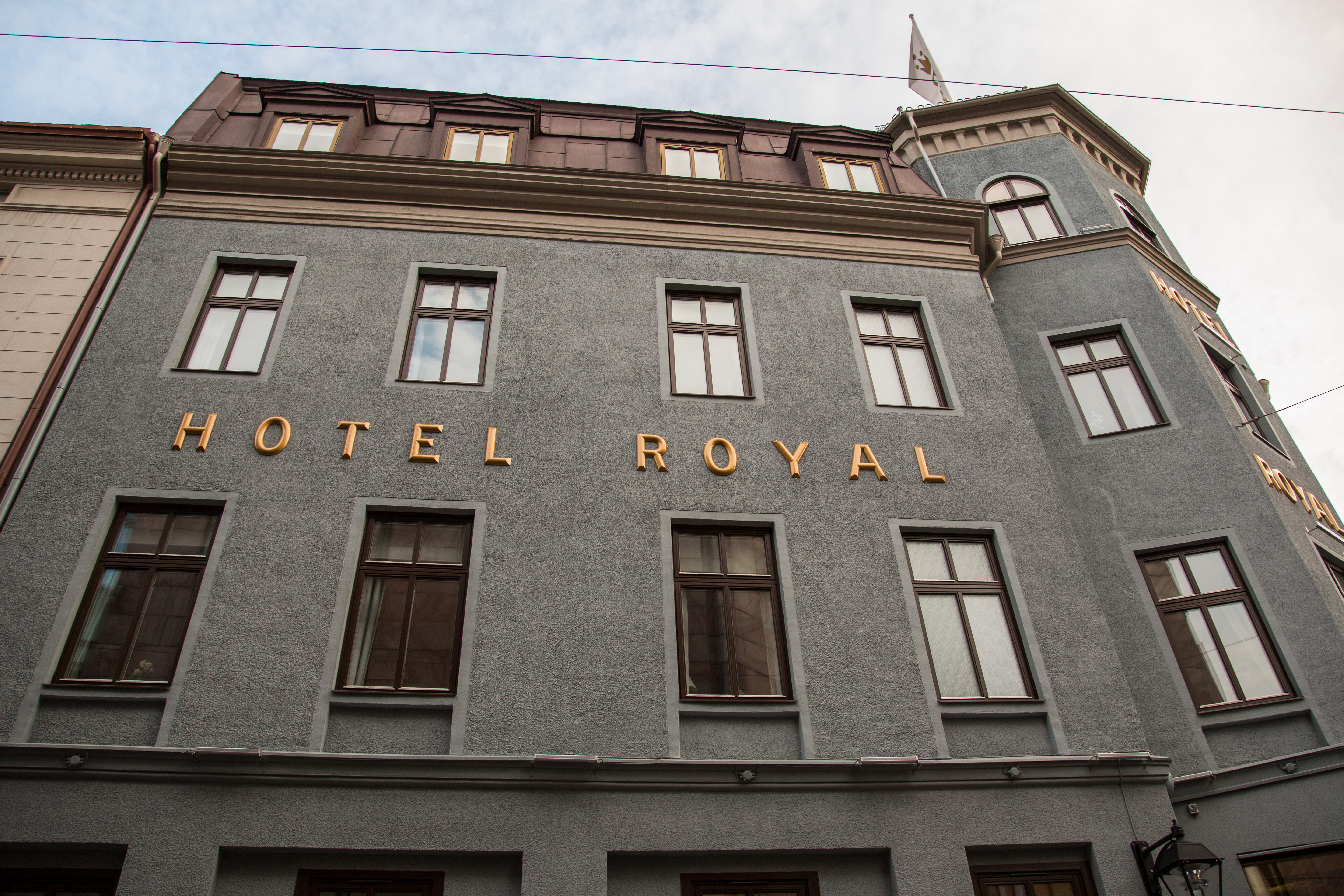 Hotel Royal, Gothenburg